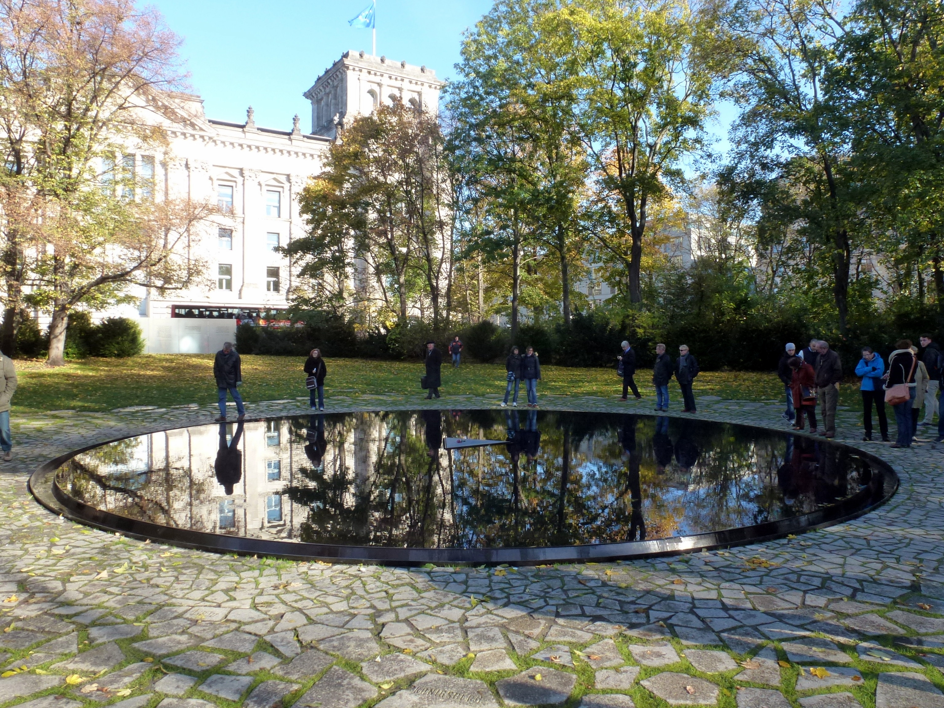 Memorial to the Sinti and Roma in Berlin-Tiergarten